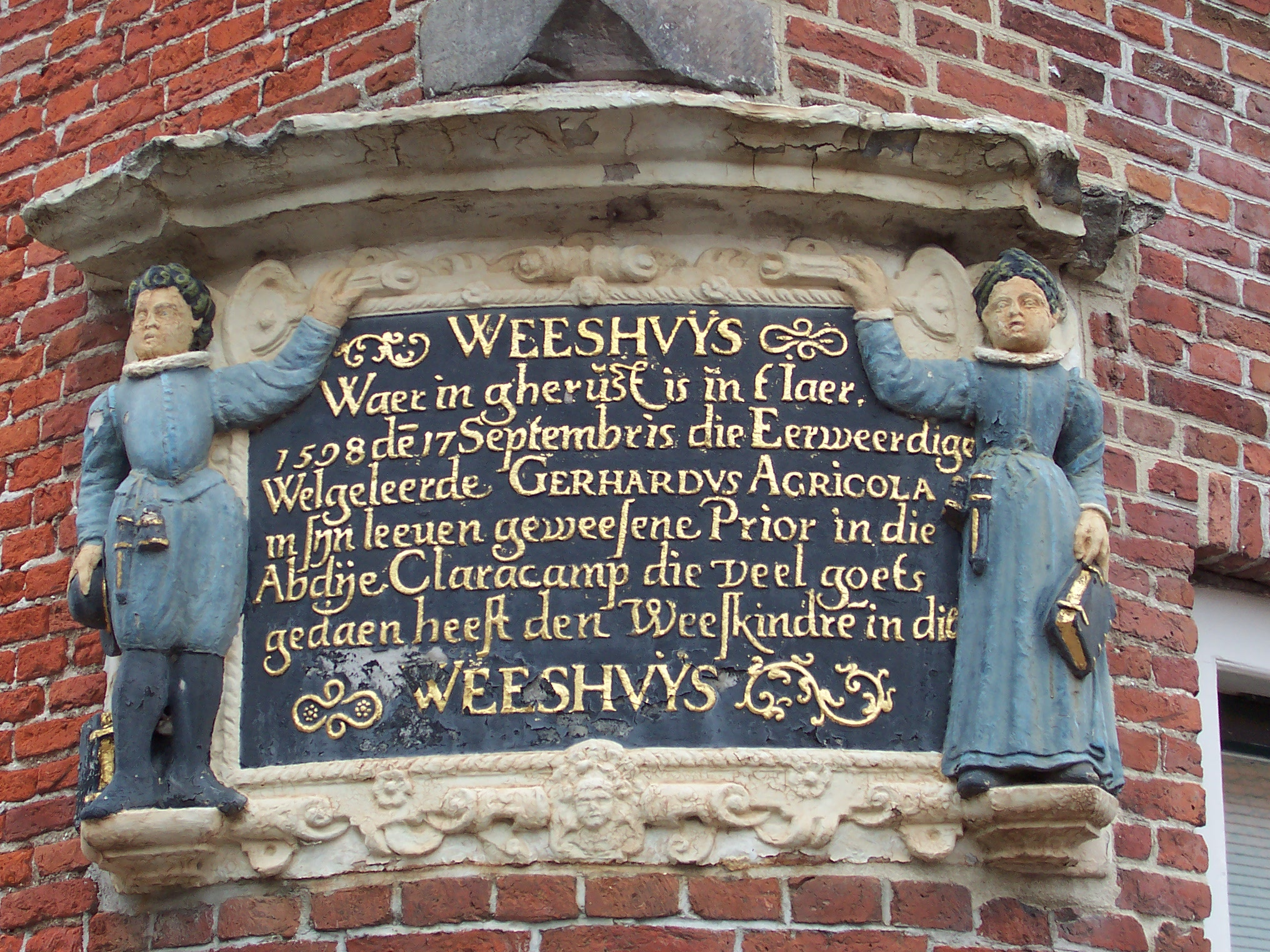 Godsacker 35, former orphanage